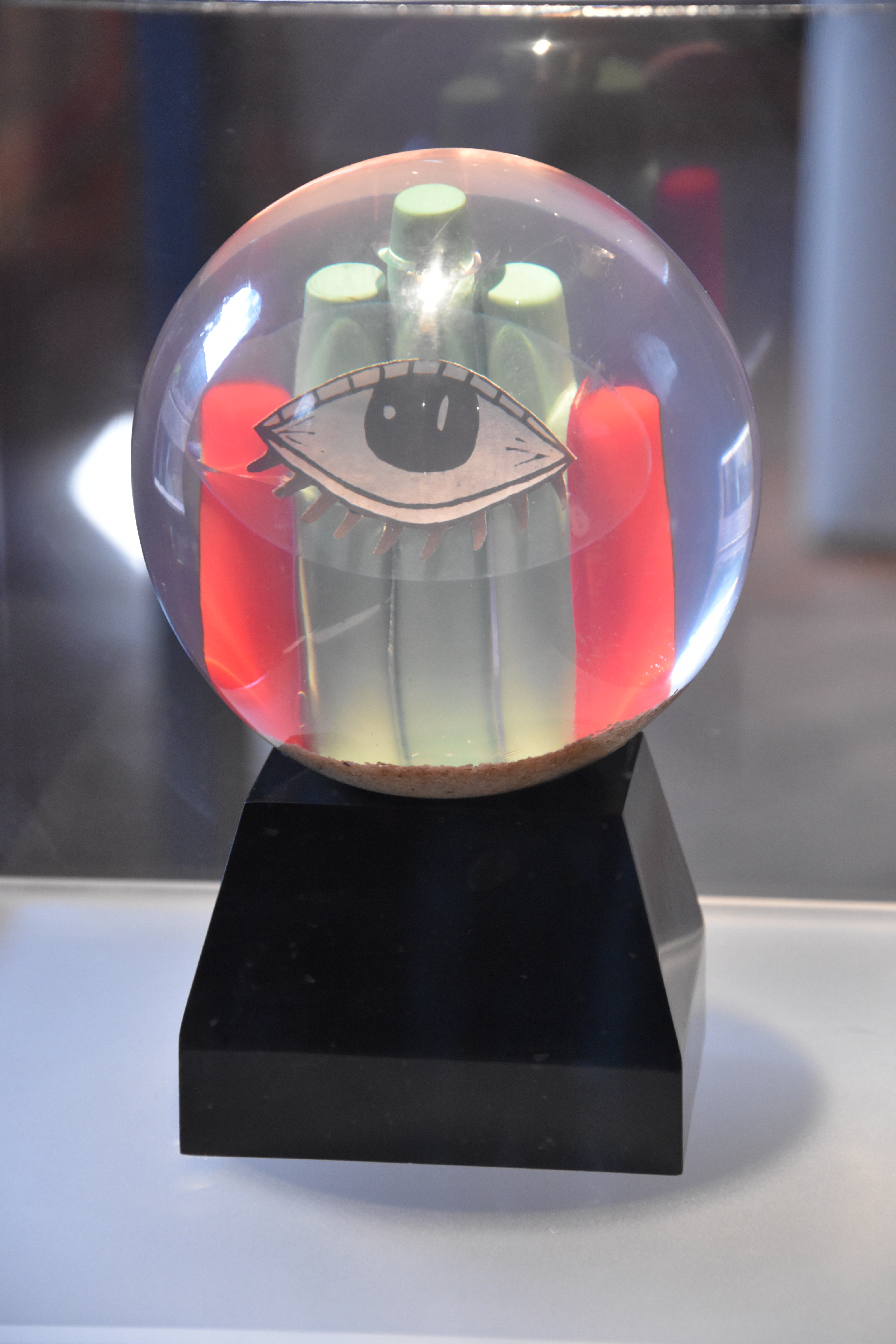 Plastic Art Museum, interior of Palazzo dei Castiglioni di Monteruzzo in Castiglione Olona, province of Varese, Italy.